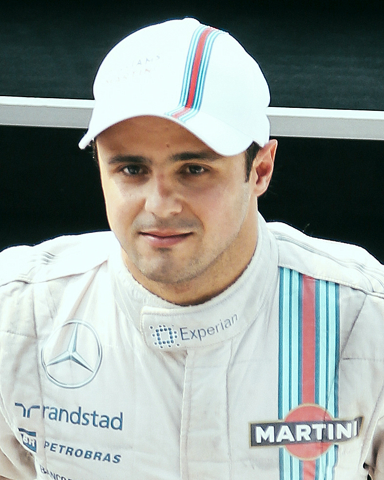 Felipe Massa leaving the podium of 2014 Italian Grand Prix. Autodromo Nazionale Monza.